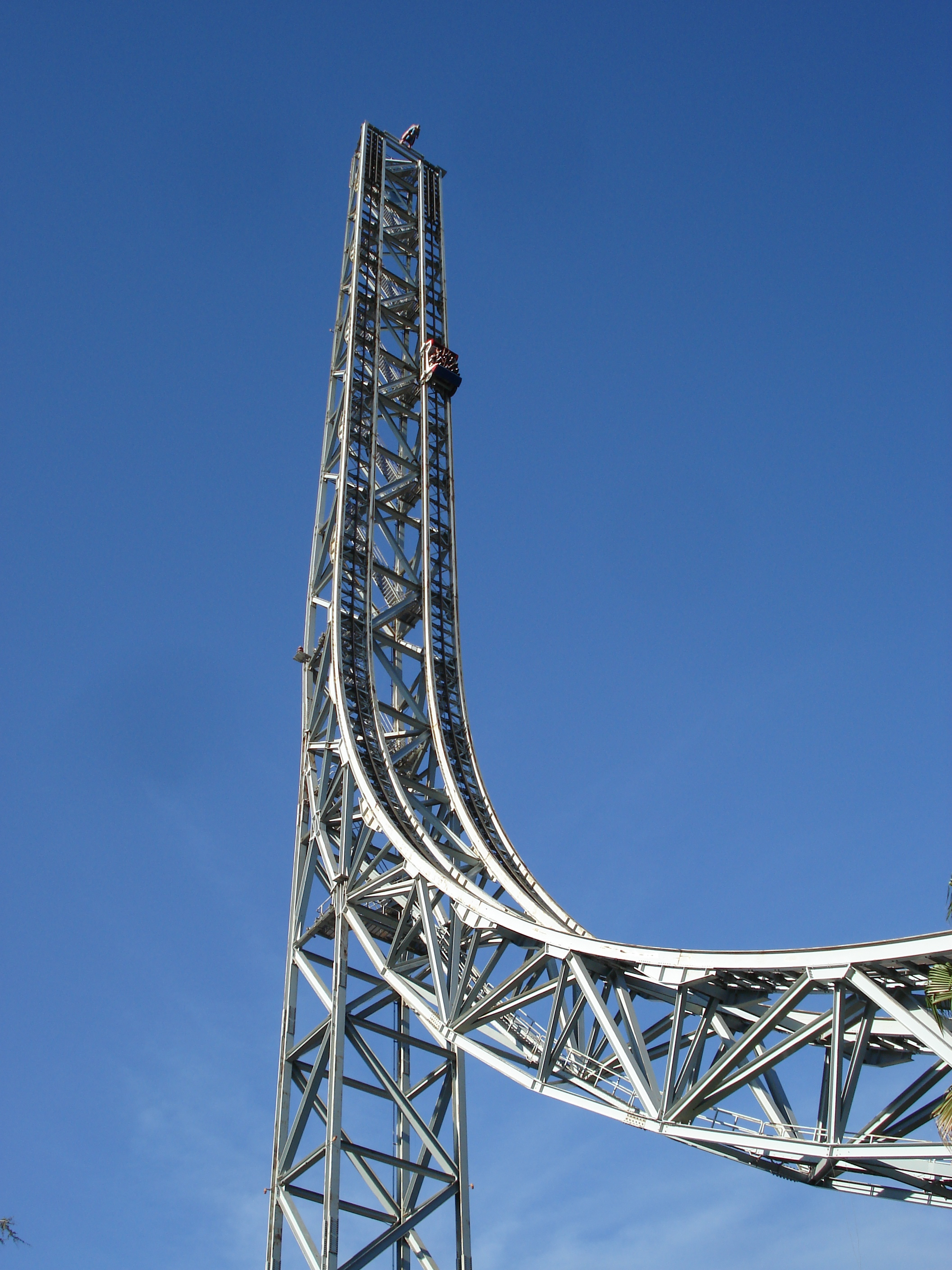 Superman: The Escape at Six Flags Magic Mountain